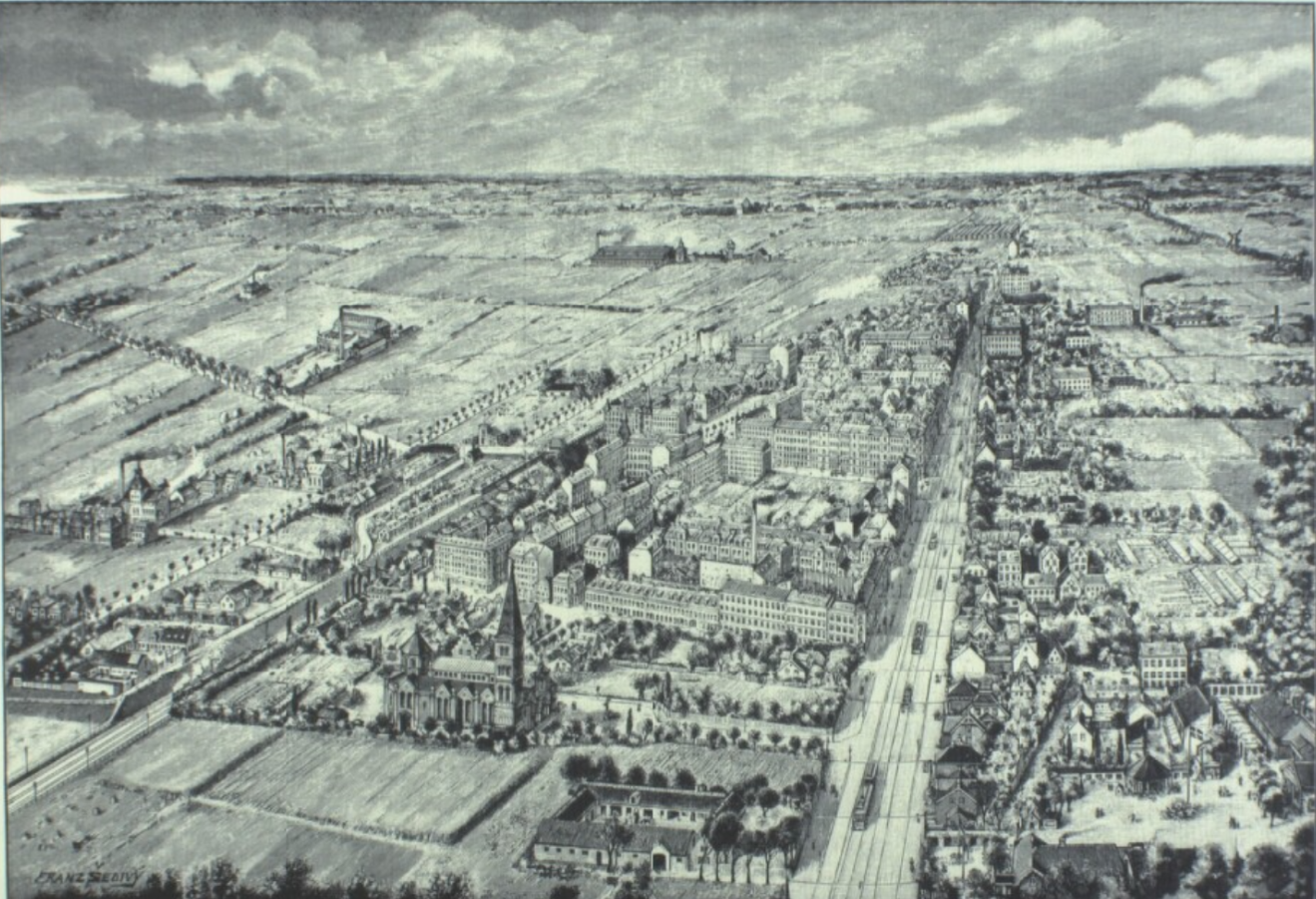 Aerial view of Valby with the Hesus Church and Valby Langgade featuring prominently in the picture.